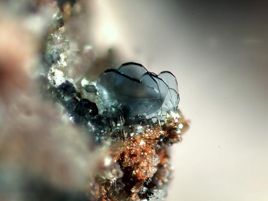 Thin Osumilite tabulars, image width: 1,5 mm. - Locality: Wannenköpfe, Ochtendung, Eifel region, Germany